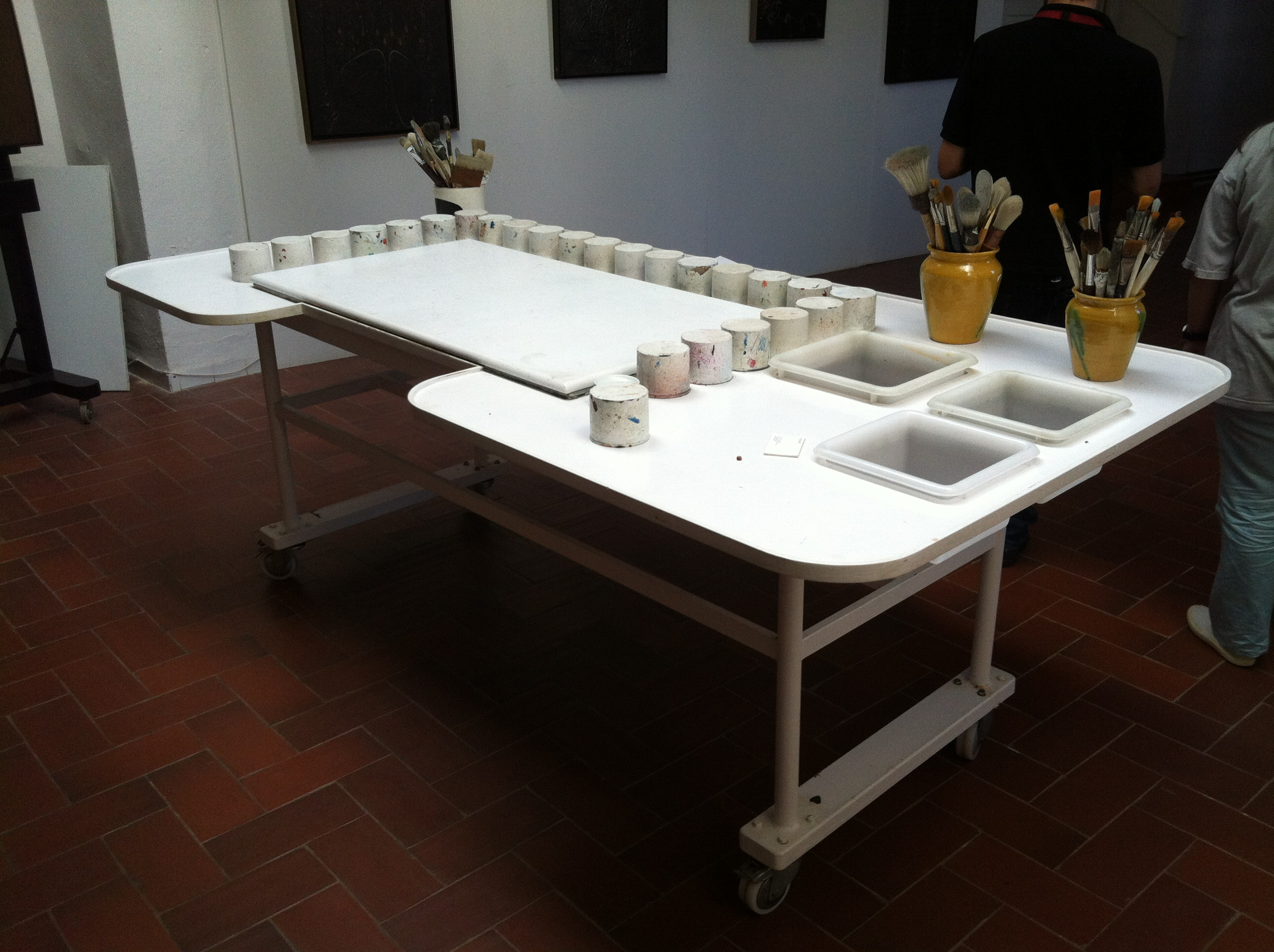 Edit-a-thon at Fundació Modest Cuixart in Palafrugell, Catalonia